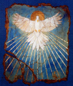 Image of the Holy Spirit or Paraclete